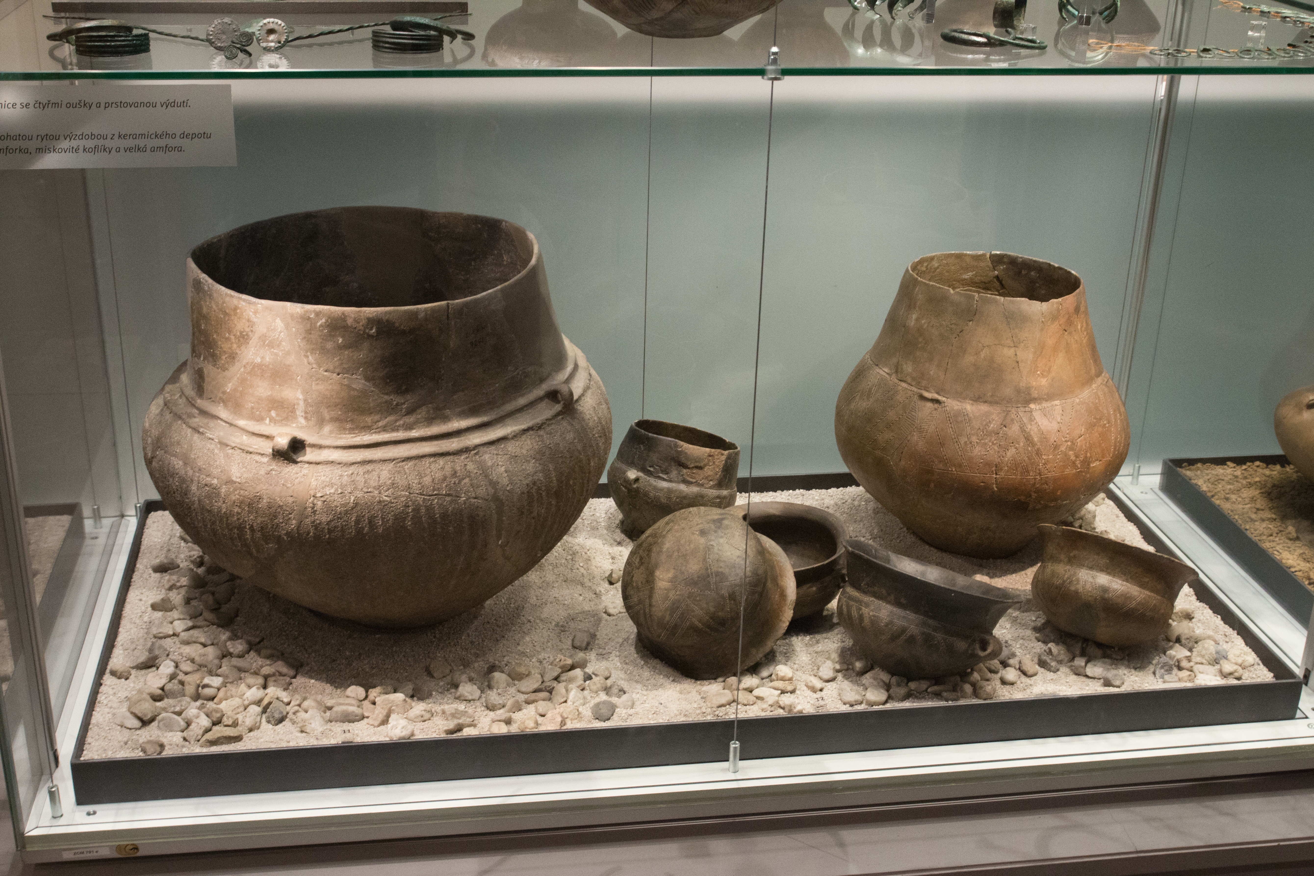 Tumulus culture pottery, Middle Bronze Age. Left: Large storage vessle from Dobřany (Plzeň-South District). RIght: Pottery from ceramic depot in Lelov near Stod (Plzeň-South District). Museum of Western Bohemia in Pilsen.